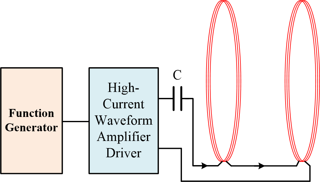 Using a waveform amplifier driver and a series capacitor to produce high-frequency Helmholtz magnetic field.